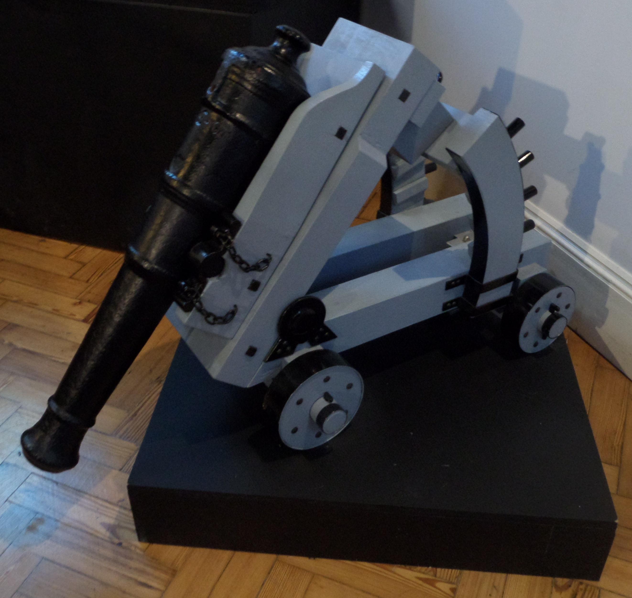 Depressing cannon c.1800. Koehler Depressing Carriage. Used in Gibraltar to shoot downhill. Manufacturer: John Sturges, England; 0.5 mile range; 0.5 lb shot. On display at Royal Engineers Museum, Kent.